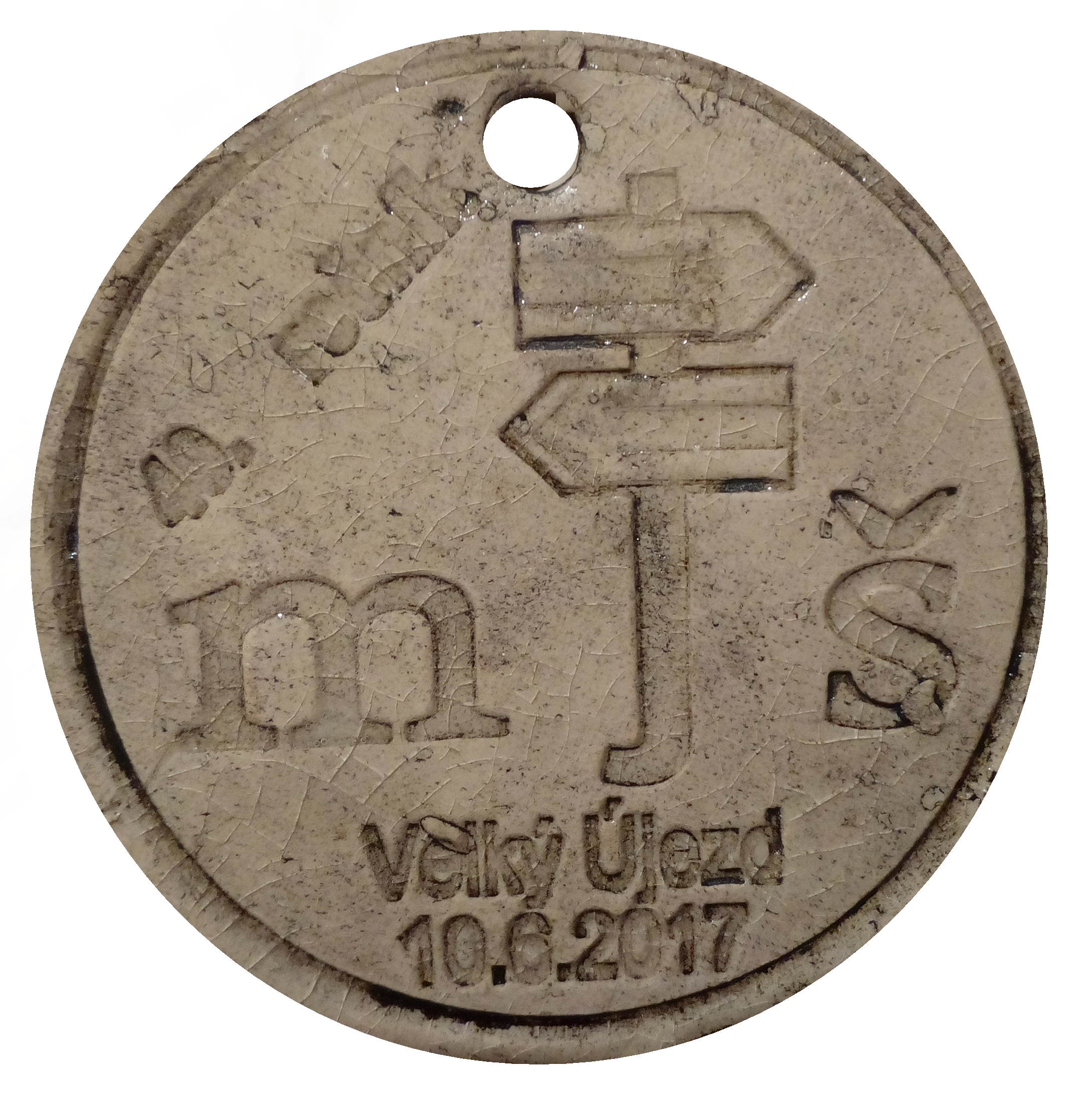 Memoriál Jaroslava Švarce 2017 medall